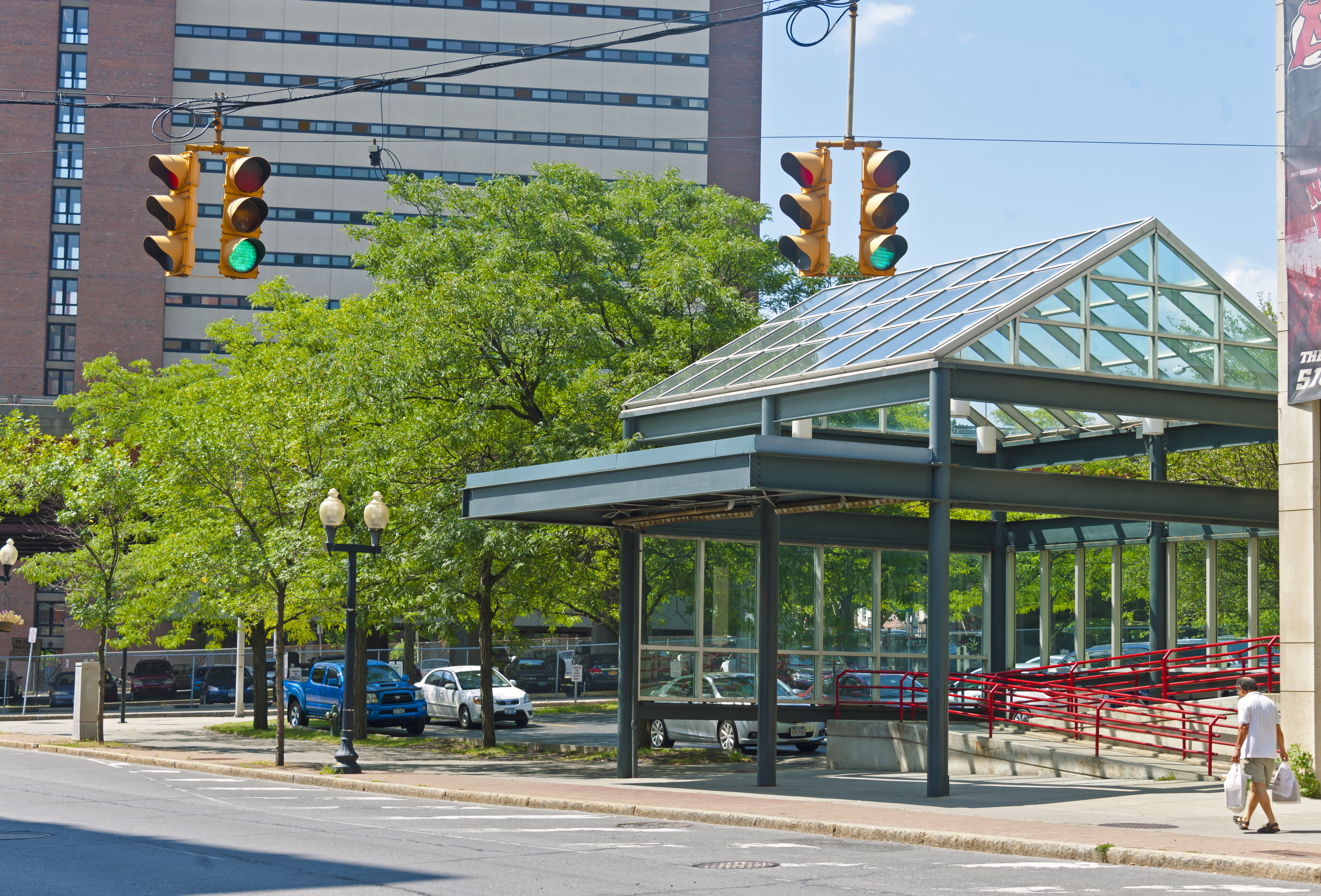 Former location of the Abrams Building at South Pearl Street (NY 32) and Hudson Avenue in Albany, NY, USA